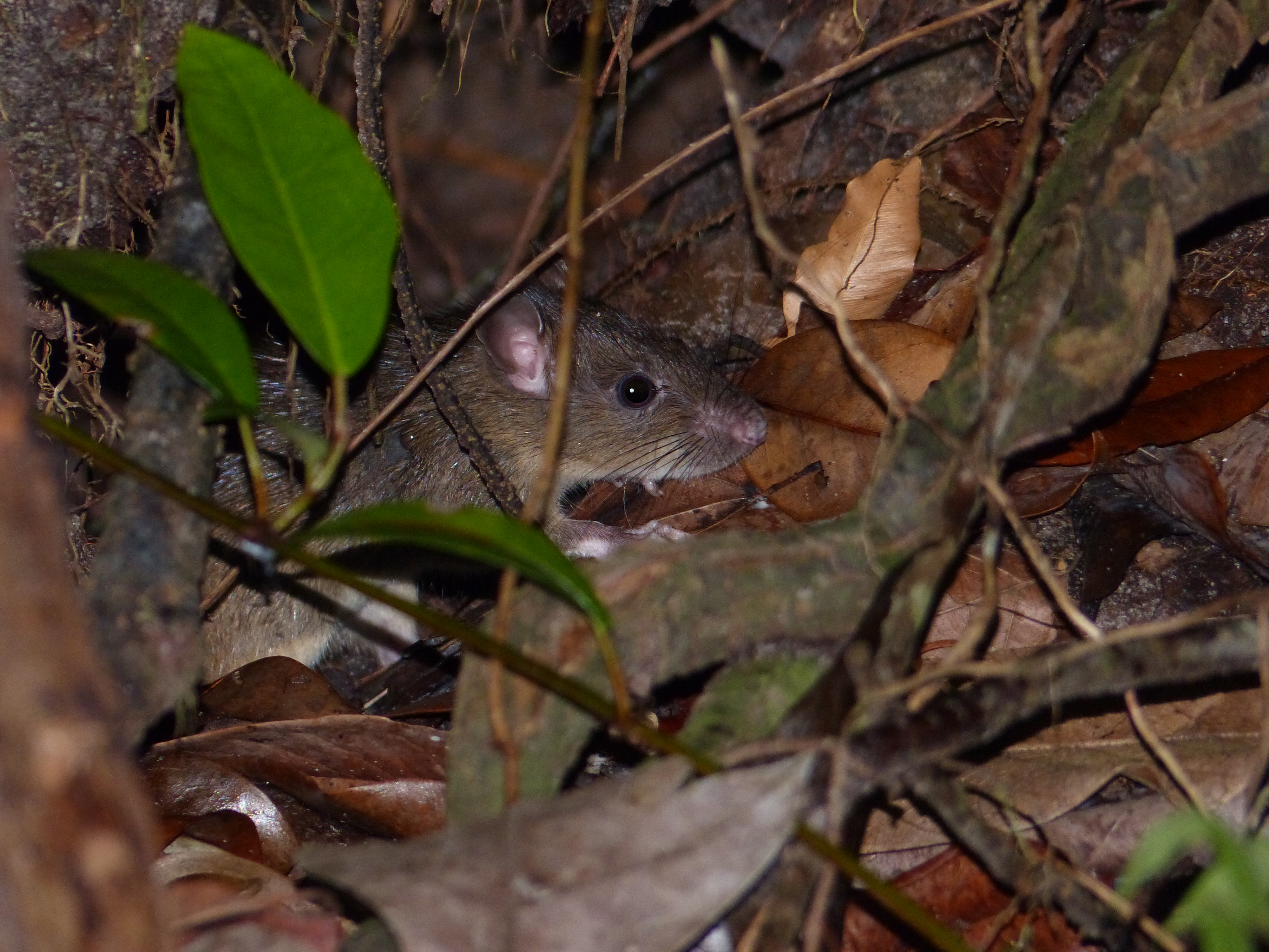 Permai Rainforest Resort, Santubong Peninsula North of Kuching, Sarawak, MALAYSIA